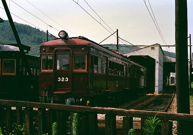 Hankyu 320 series electric car #323 at the Nose Electric Railway Hirano Depot